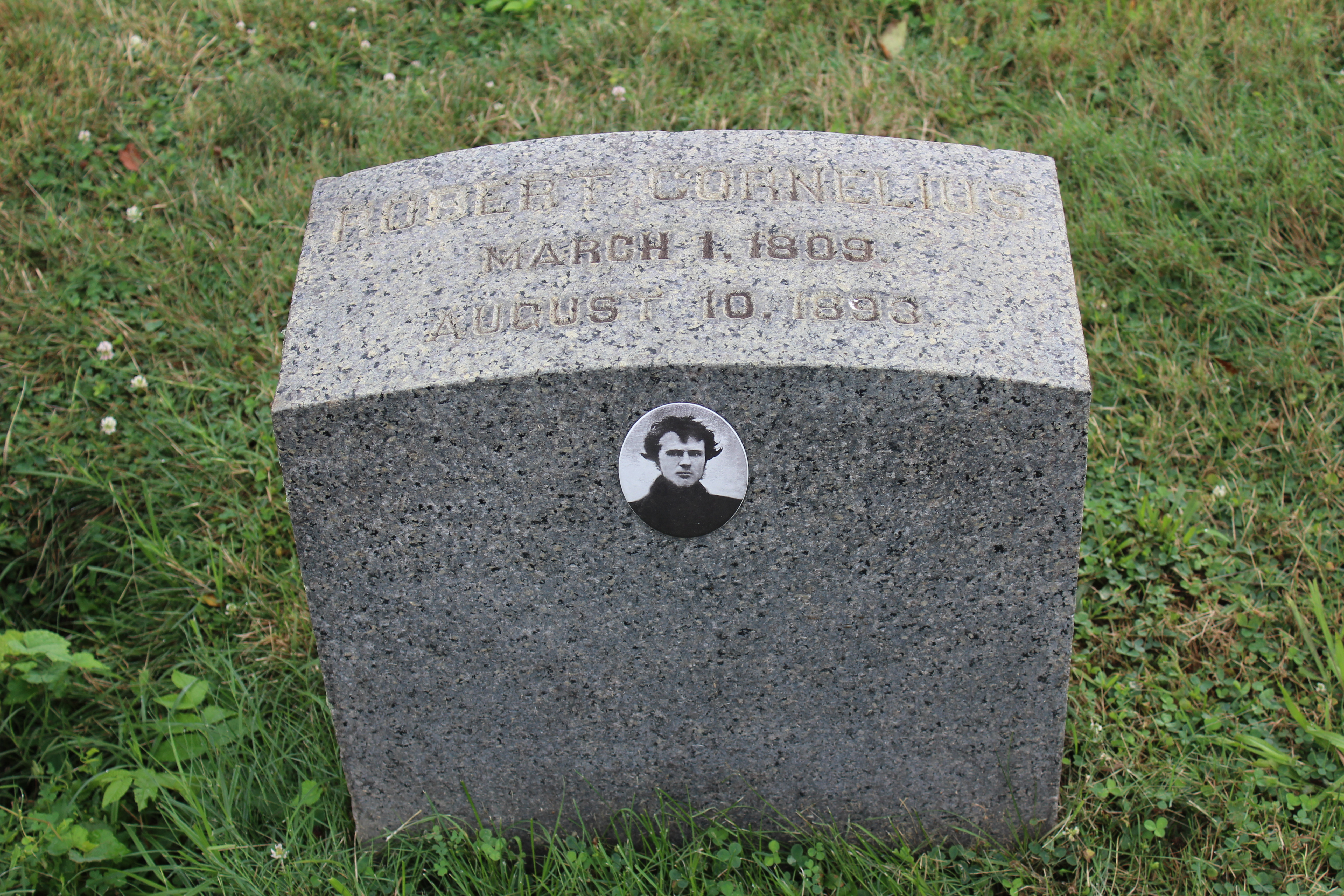 Robert Cornelius gravestone in Laurel Hill Cemetery. Photo taken July 2020.